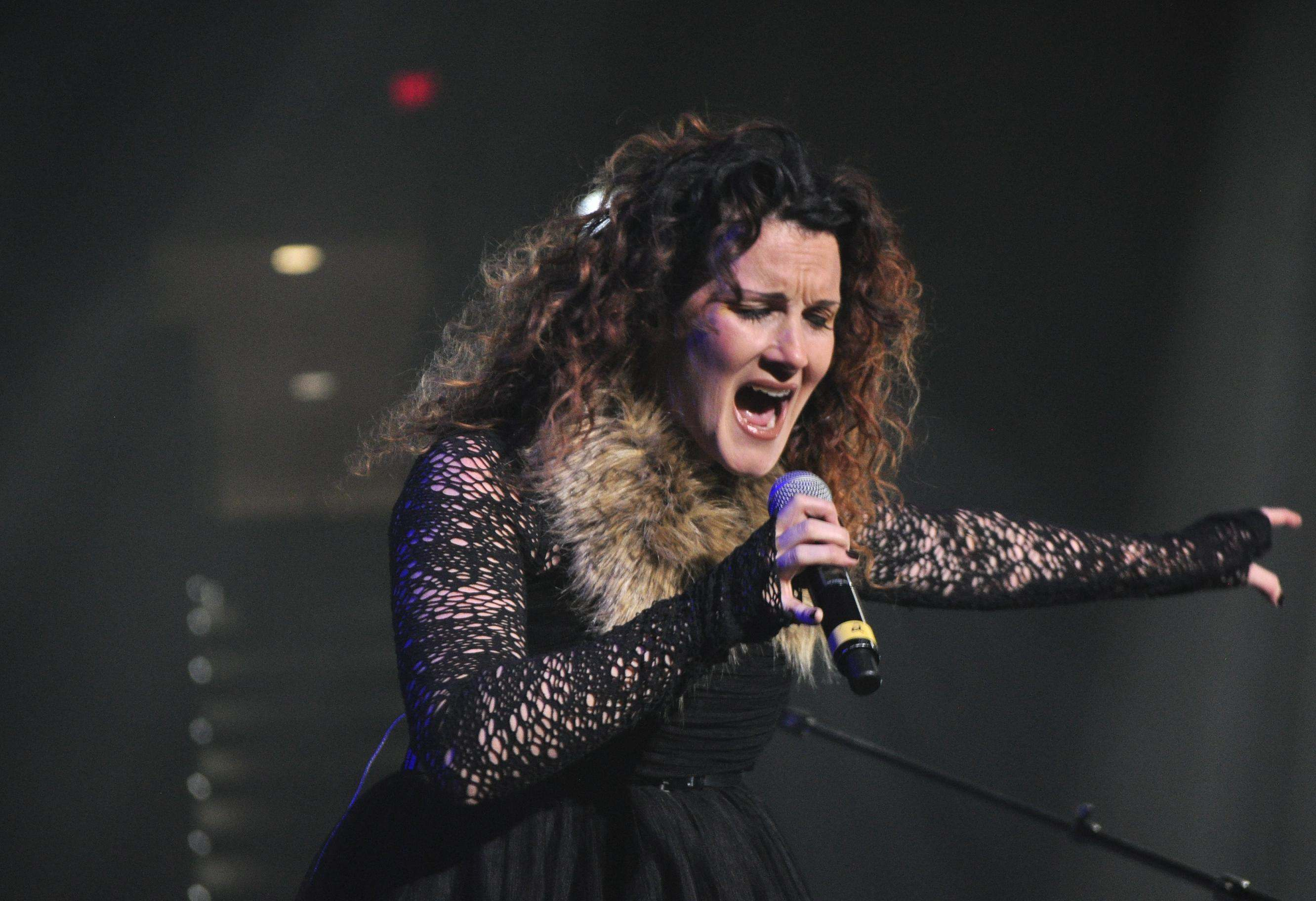 Contemporary Christian and dance singer Plumb (singer) performing